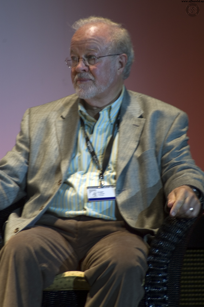 Special effects artist Douglas Trumbull, famous for his works on films such as Star Trek: The Motion Picture.